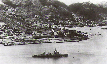 The Royal Navy cruiser HMS Swiftsure (08), entering Victoria Harbour, Hong Kong, through North Point on 30 August 1945.